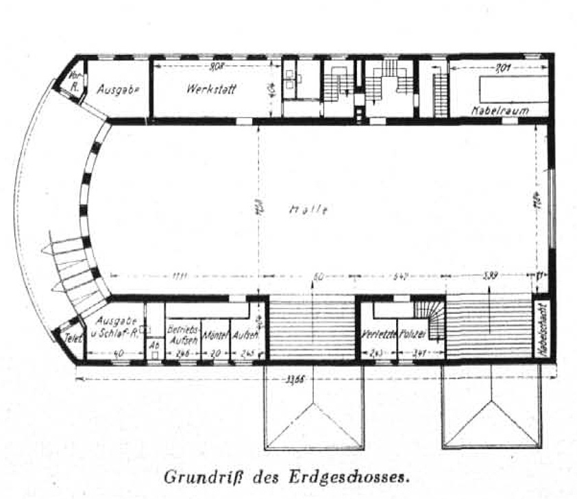 U-Bahnhof Olympia-Stadion - Grundriss